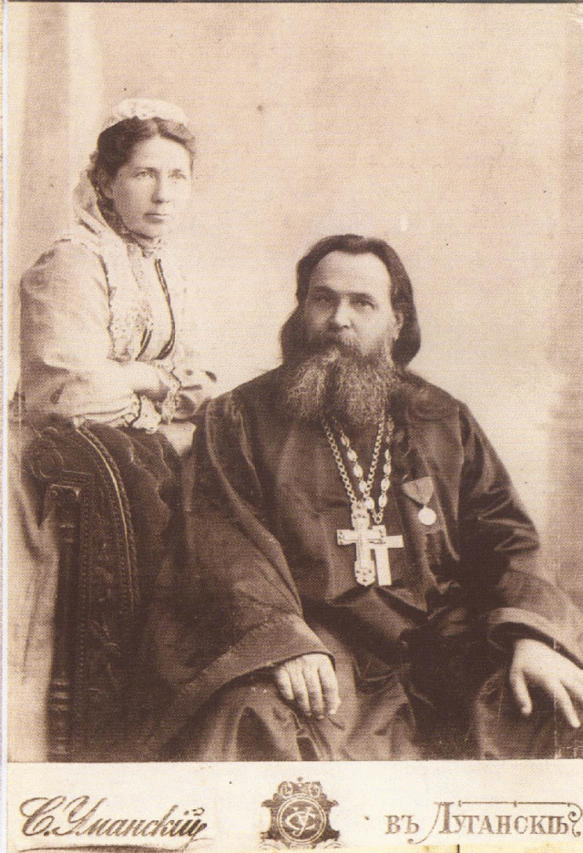 The Dean of Orthodox St. Nikolay's Cathedral Pavel Hitsunov with his wife Elizaveta Emelyanovna.